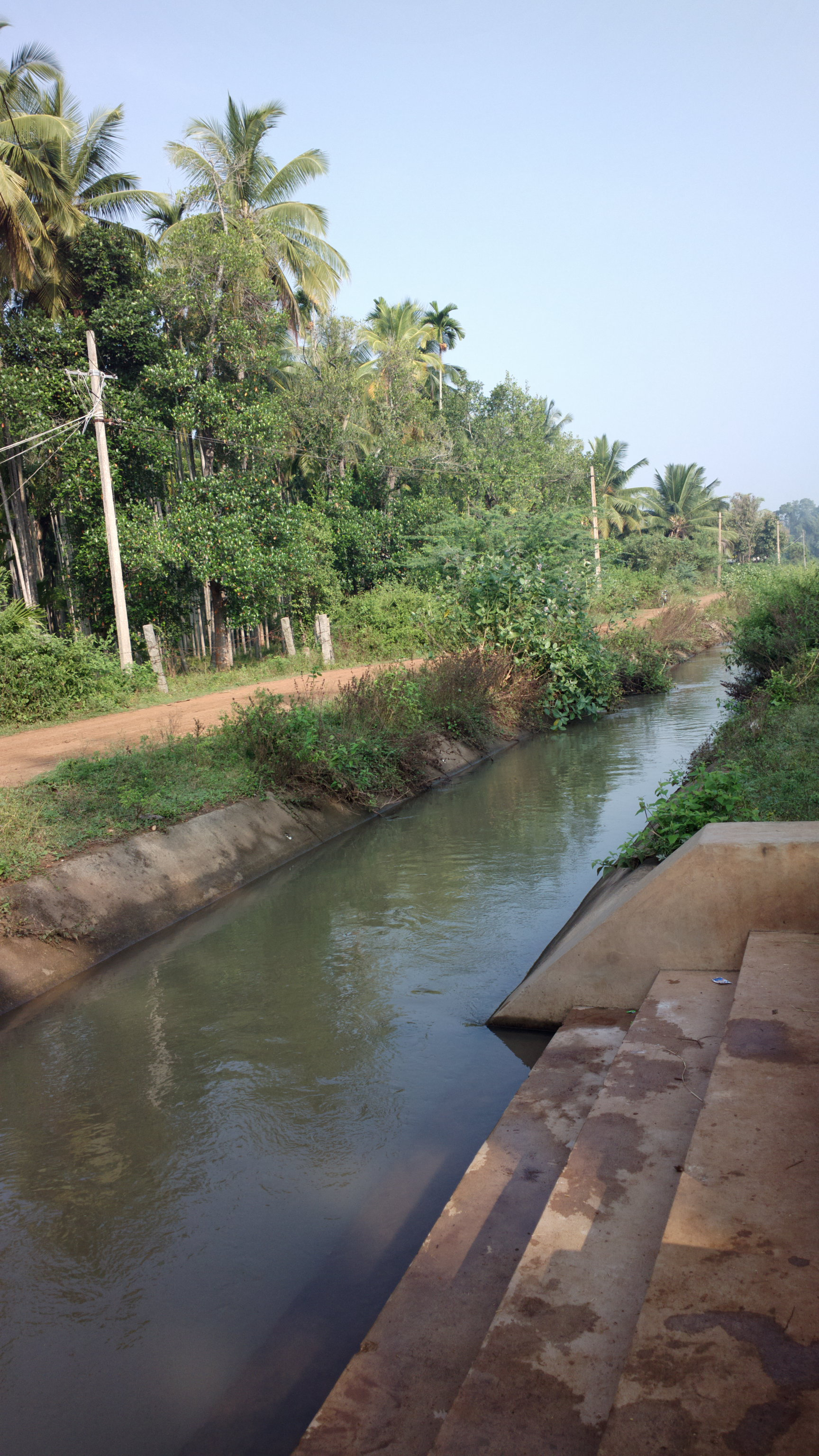 Irrigation Canal in Doddaghatta Village near Channagiri.